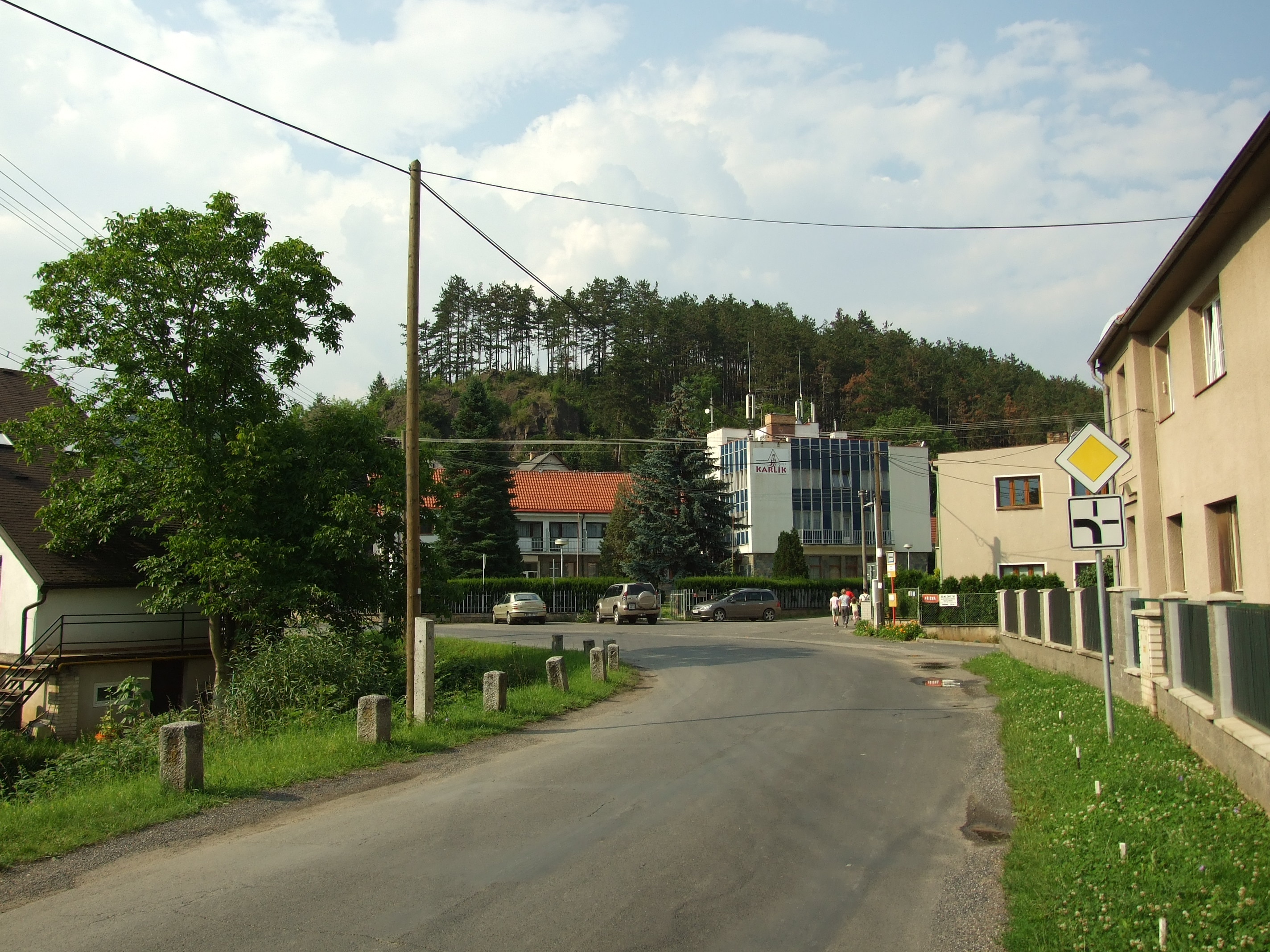 Town of Karlík near Prague and Beroun in Central Bohemian region, CZhelp